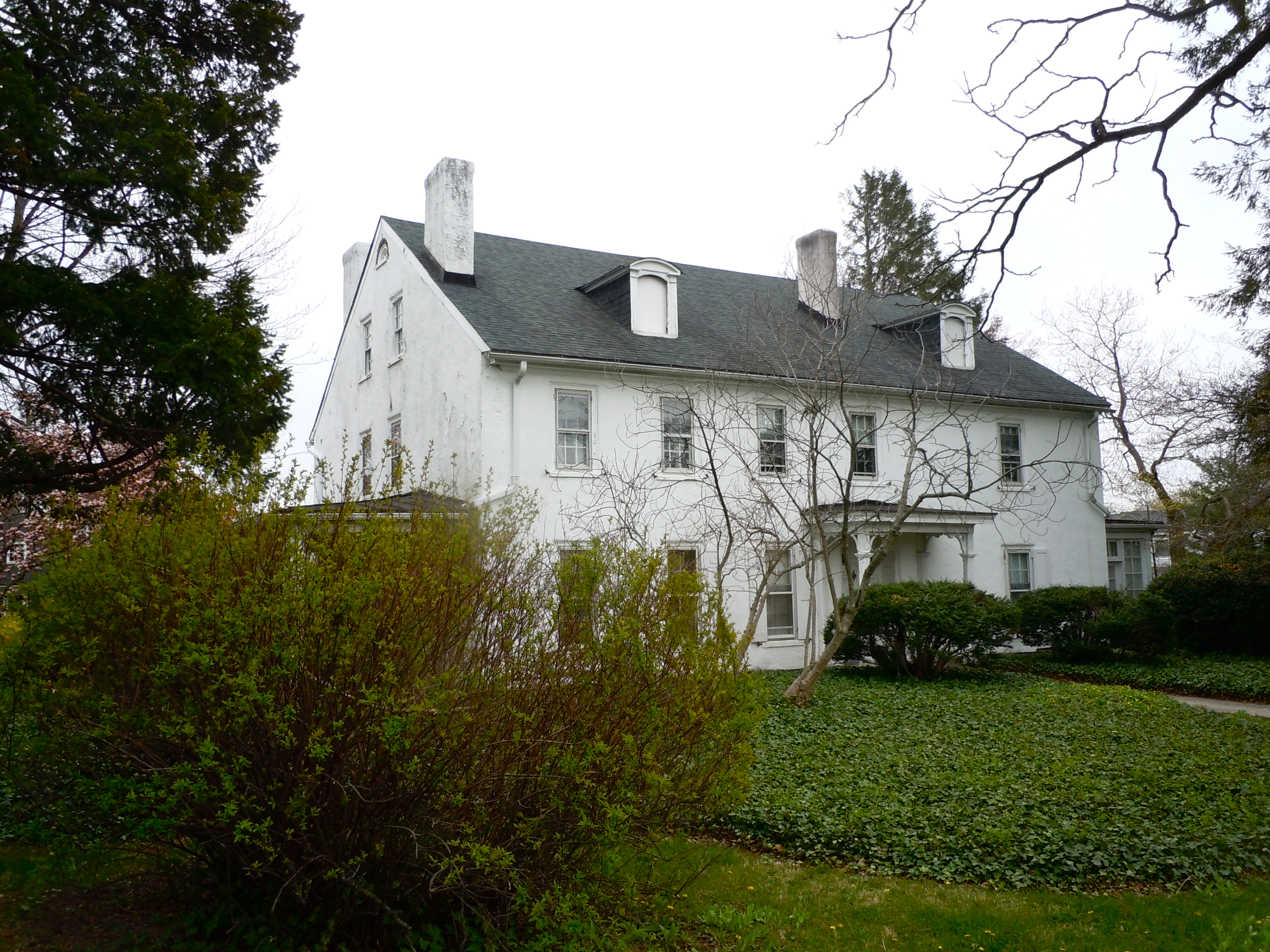 Thornfield, boyhood home of Thomas Garrett, famous underground railway conductor (mainly in Wilmington, Delaware). PHMC state historical marker dedicated Sunday, October 25, 1981. At Garrett Rd. & Maple Ave., Drexel Hill, Pennsylvania. 39.9461°N 75.2935°W Historical topics: African American, Religion, Underground Railroad